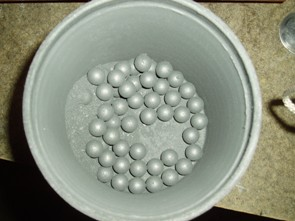 Lead antimony grinding media w/ aluminum powder.